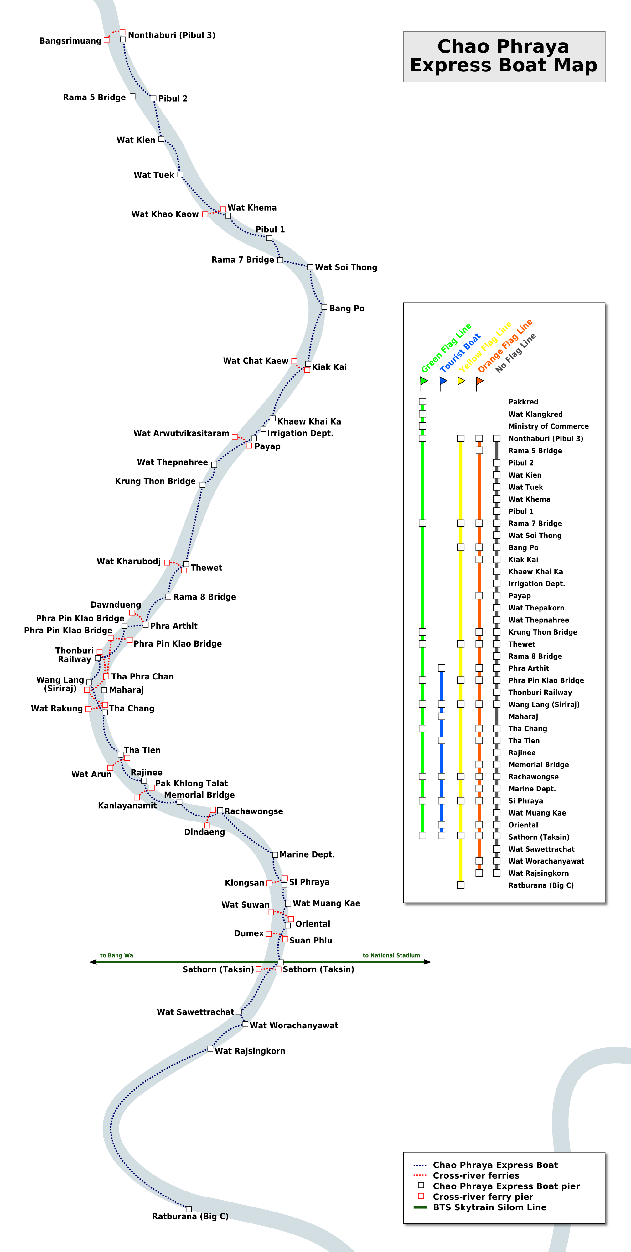 Map of the Chao Phraya Express Boat Lines, Bangkok.